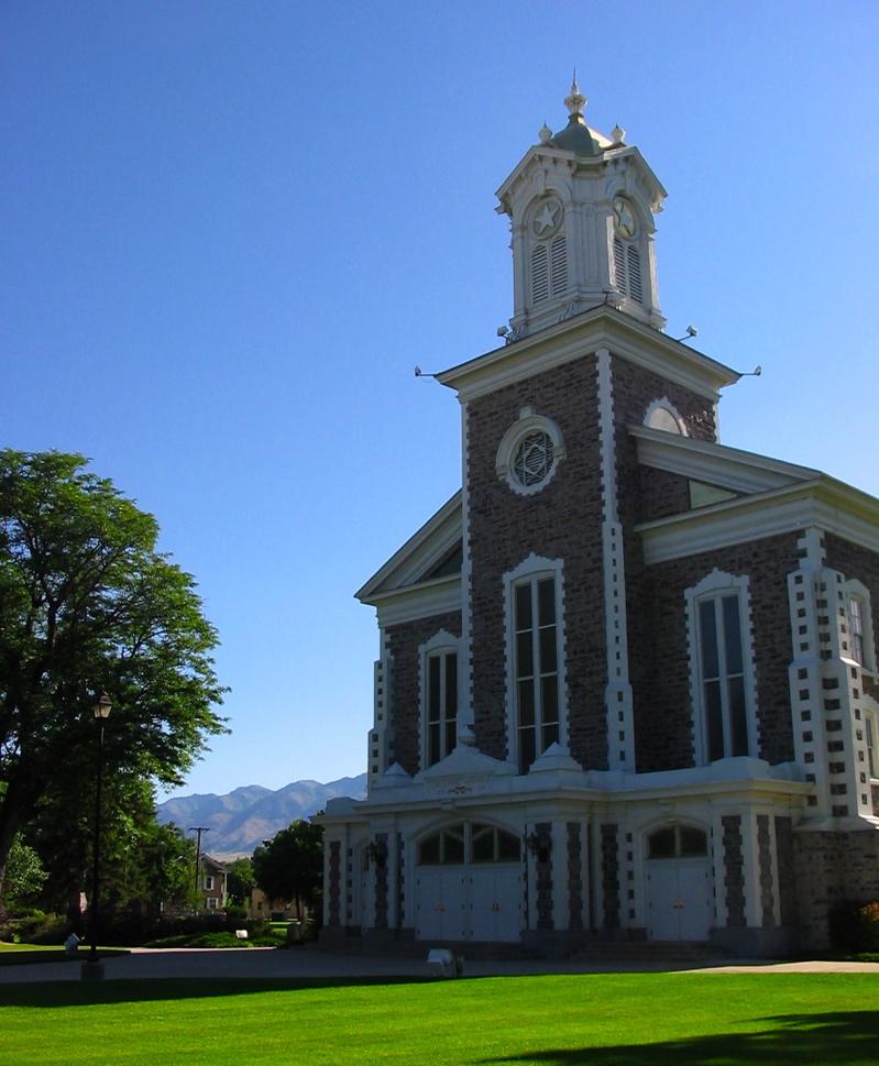 The Logan Tabernacle, a meetinghouse of The Church of Jesus Christ of Latter-day Saints (LDS Church) and is located in Logan, Utah. Was historically used as a large multipurpose religious building, such as for church conferences and as a community centers.